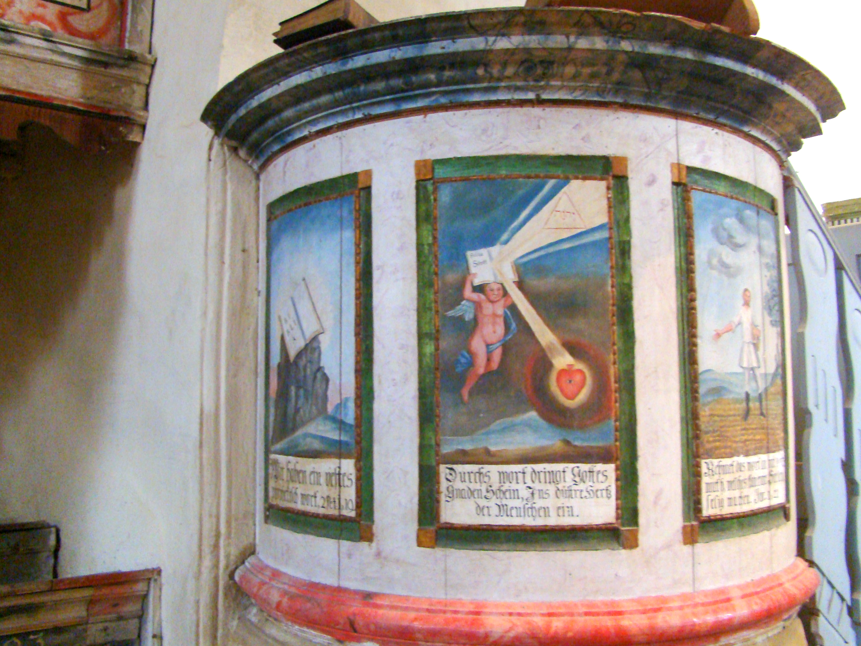 Fortified church in Homorod, Brașov County, Romania